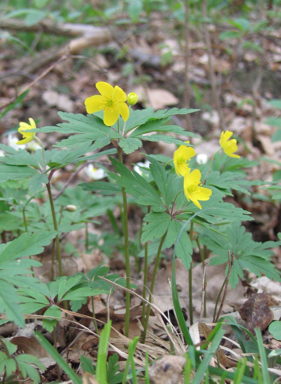 Anemone ranunculoides in flower, plants growing in Sołtysowicki Forest in Wrocław, Poland.